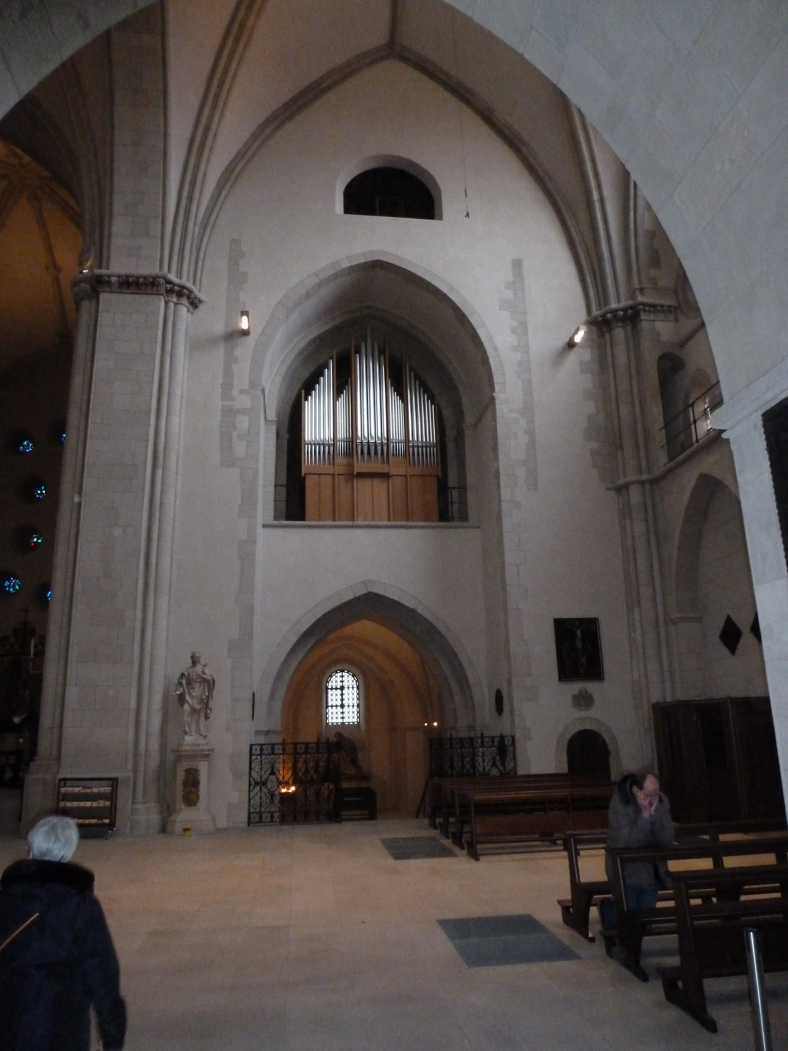 Paulusdom Münster, Nordturm: Untere Kapelle und obere Kapelle mit Fernwerk